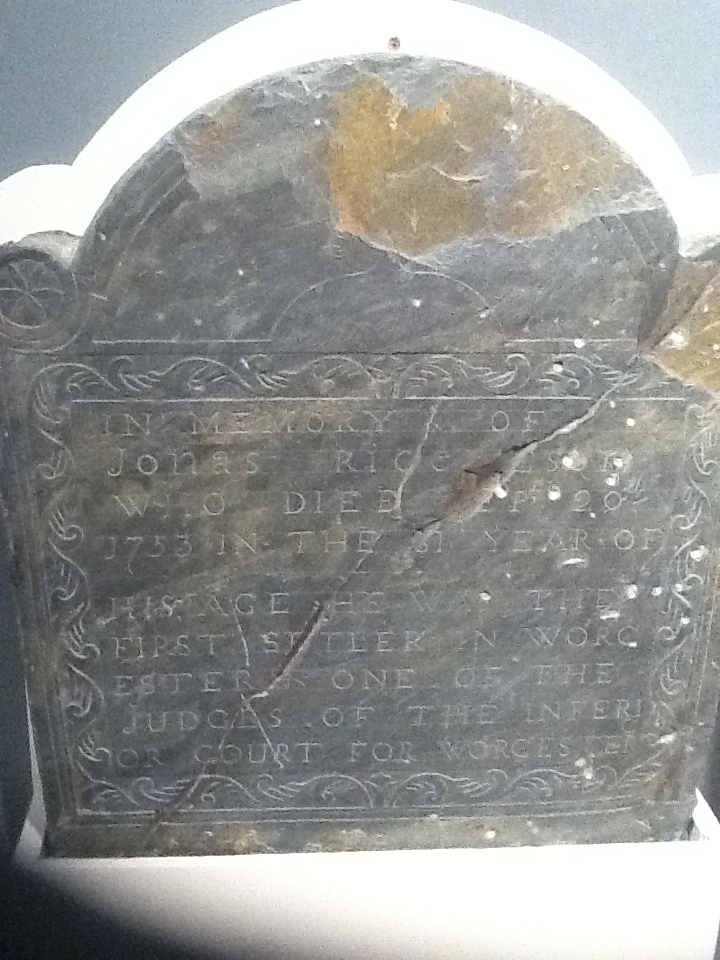 Gravestone Of Jonas Rice, founder of Worcester, Massachusetts at Worcester History Museum, Worcester, MA